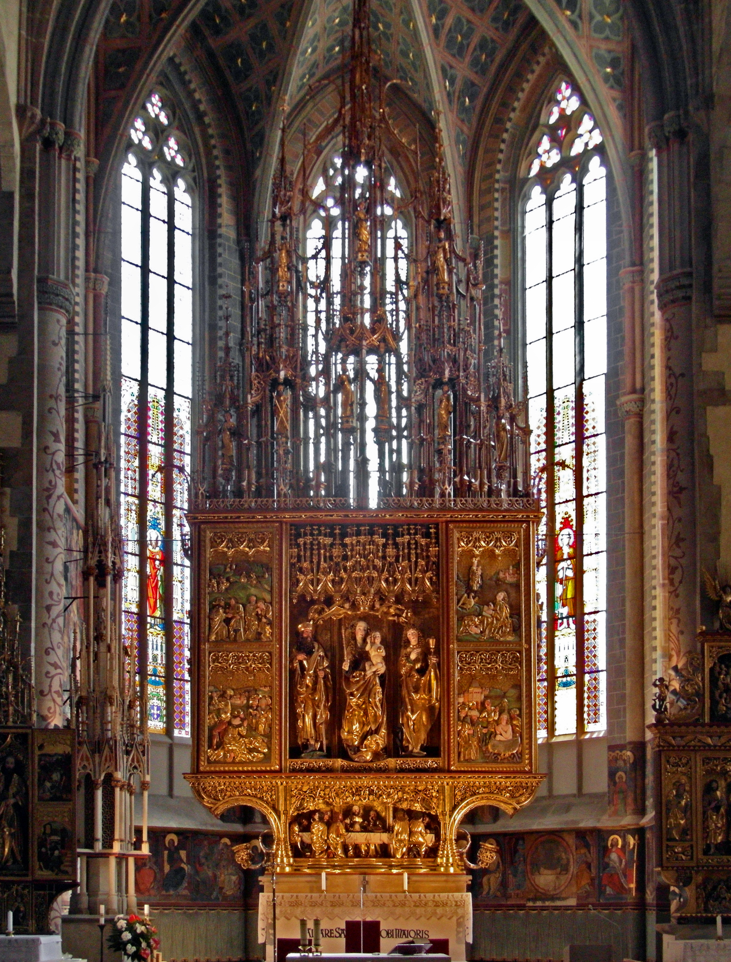 St. James, Levoča, Main altar from the workshop of Master Paul of Levoča, highest wooden altar in the world, 1517